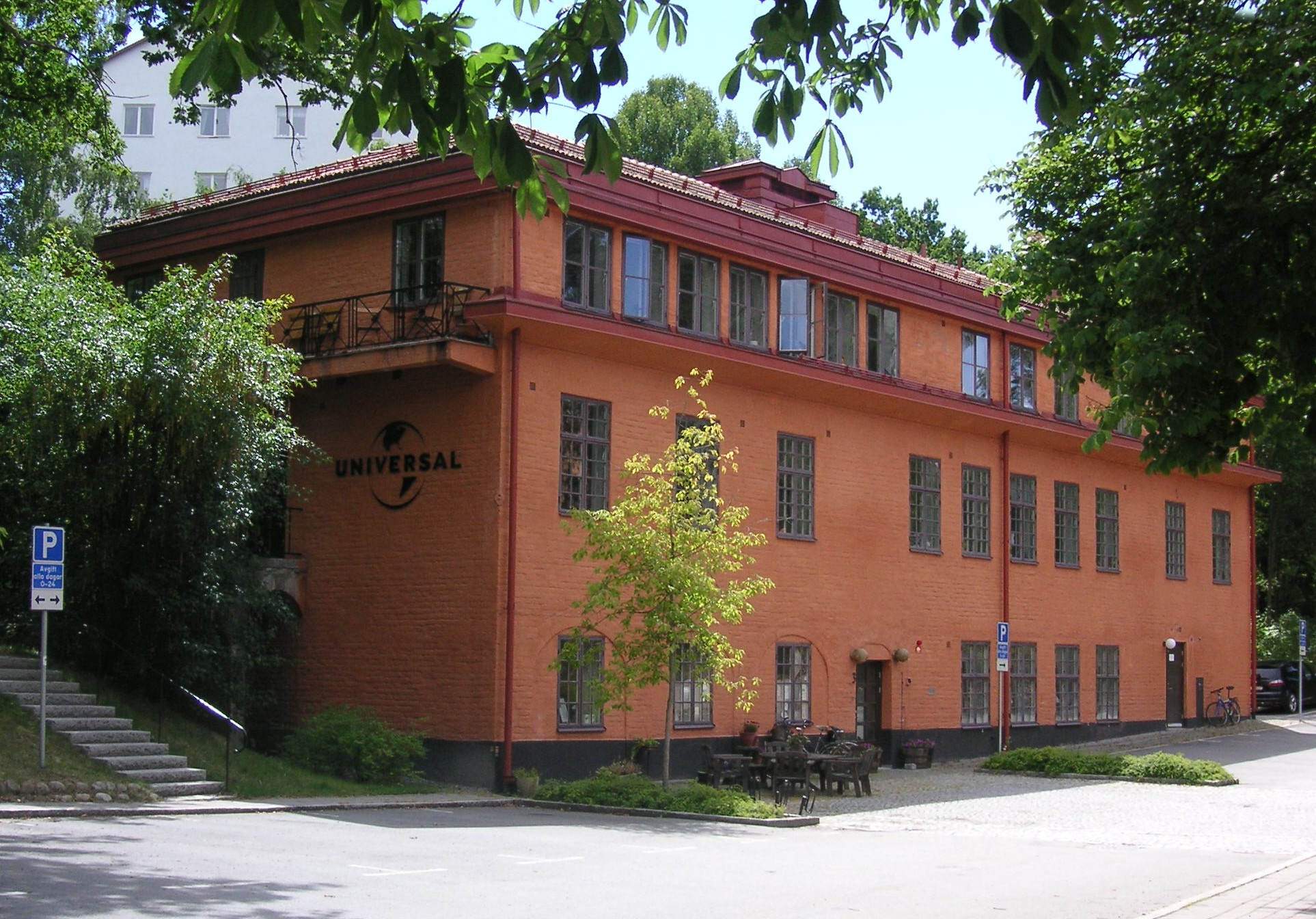 The former Swedish filmstudios "Filmstaden" in Solna